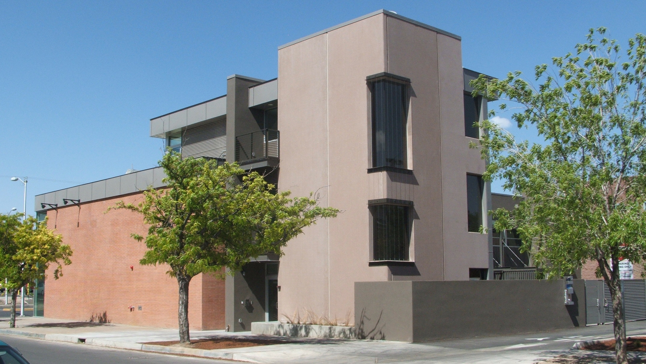 Tamarind Institute building on the University of New Mexico campus.